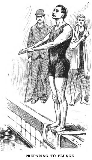 Picture of a swimmer preparing to plunge (the plunge for distance was a competitive swimming event in the 19th and early 20th century)